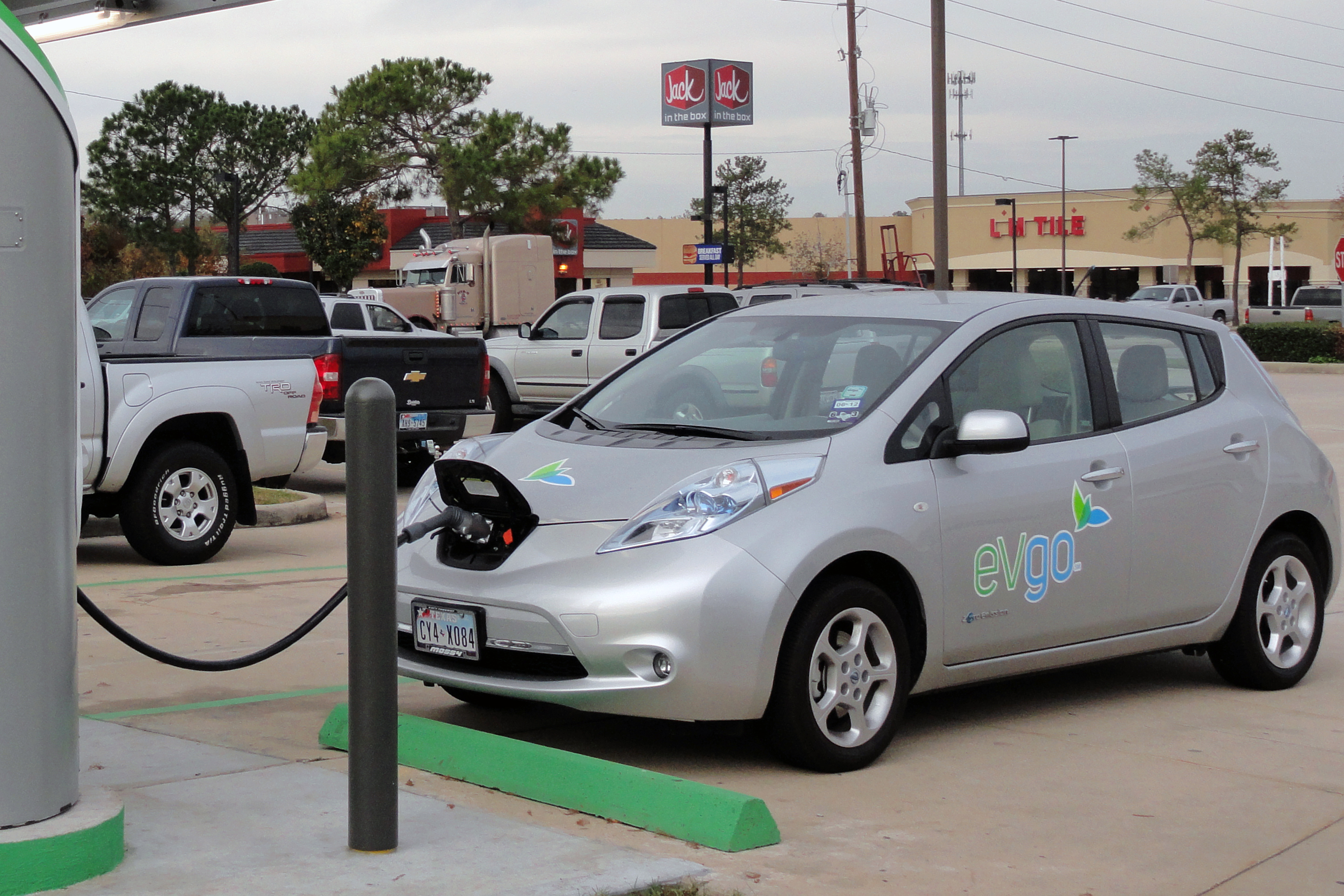 Nissan LEAF charging at the Freedom Station in Houston, TX. This is an eVgo Network station with both Level 2 and DC fast chargers.